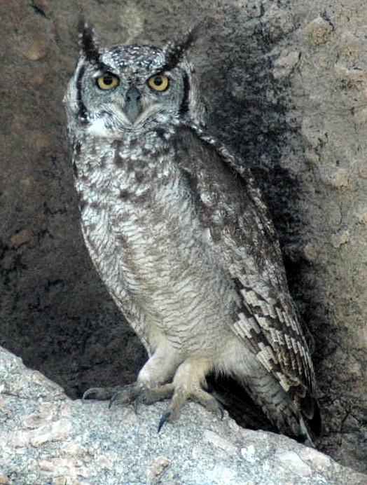 A Spotted Eagle-owl